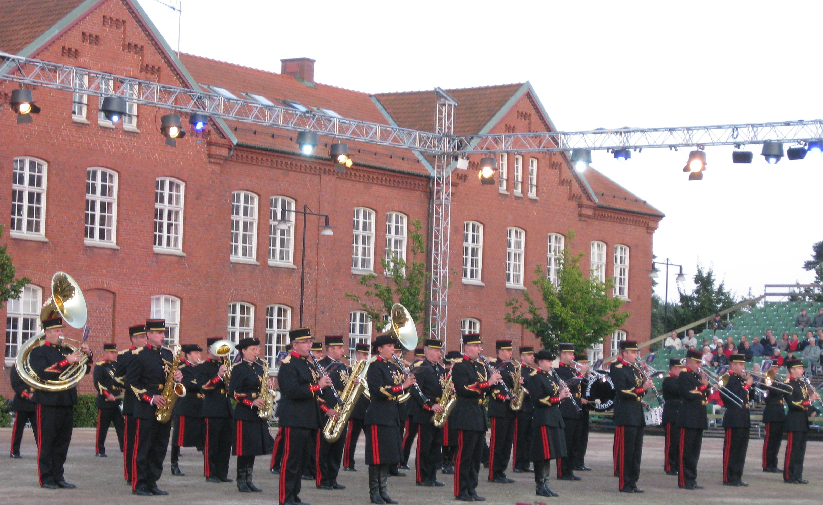 Musique de l'Artillerie at Ystad International Military Tattoo 2011